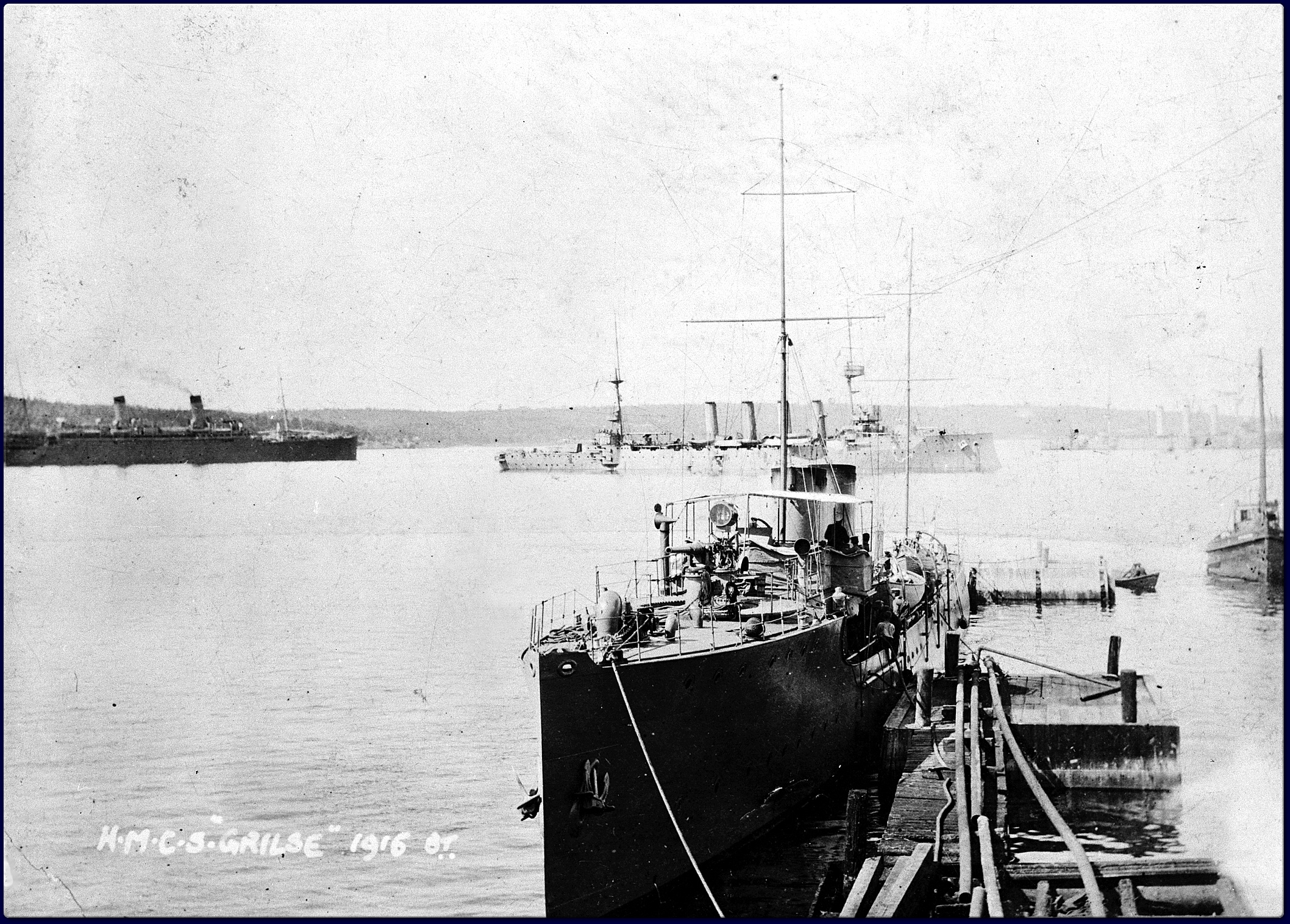 HMCS Grilse, acommissioned patrol boat of the Royal Canadian Navy during World War I